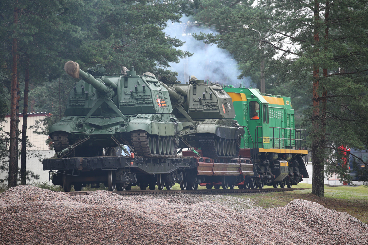 2S19M1.